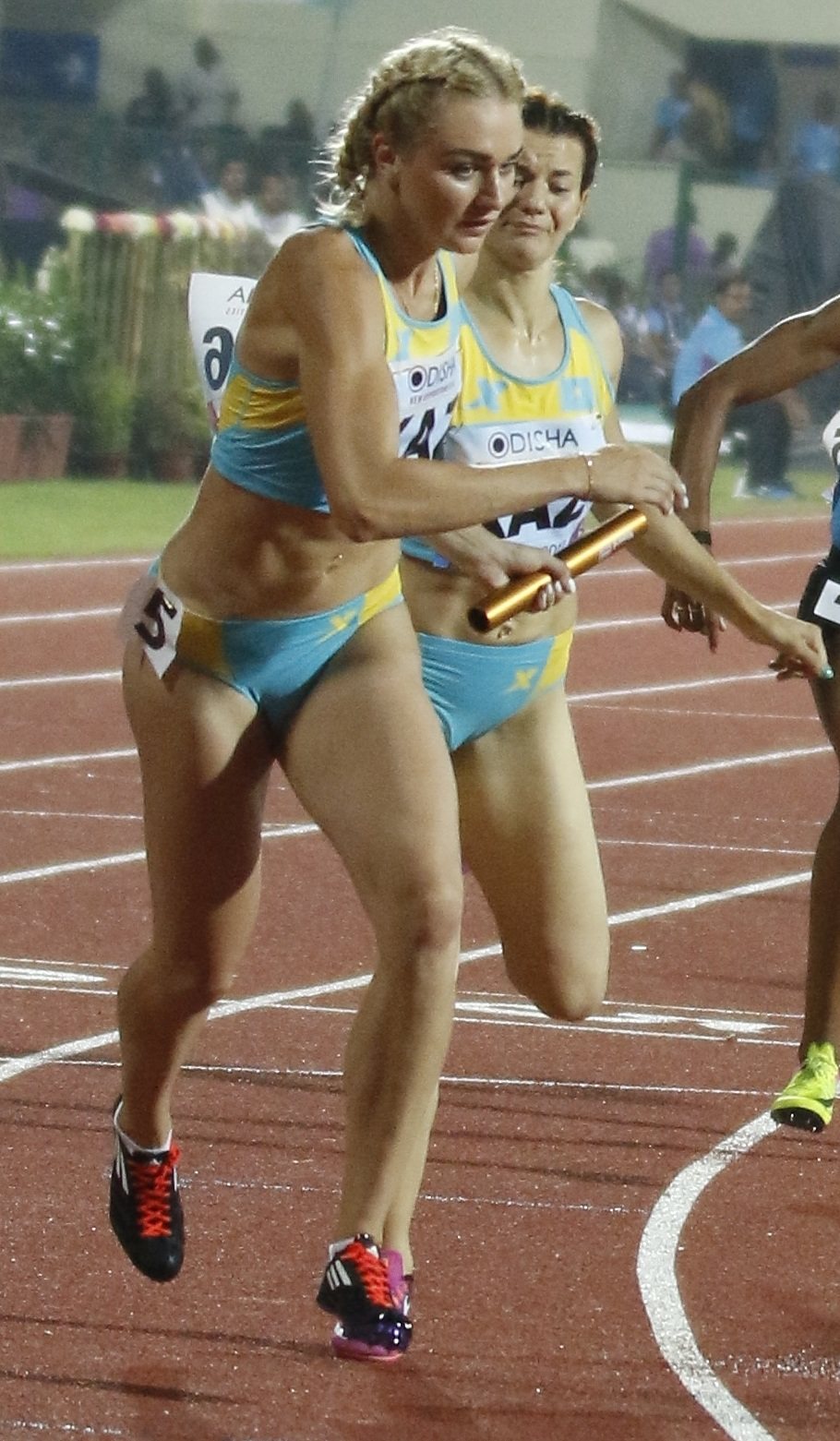 Women's 4x400m Relay Povamma Getting The Baton From Debashree Mazumdar at the 2017 Asian Athletics Championships at the Kalinga Stadium in Bhubaneswar, India